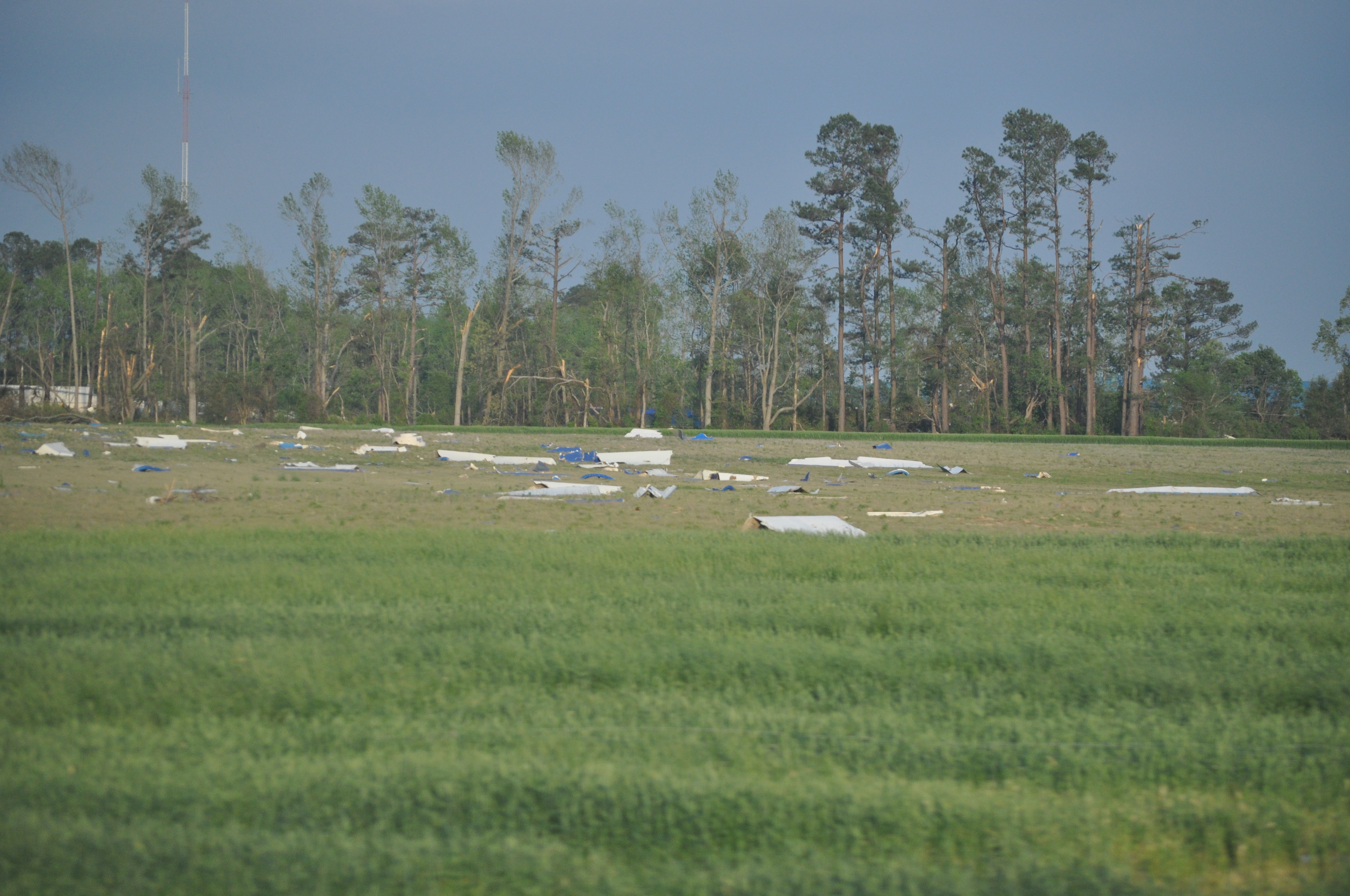 Tornado damage from the April 16, 2011 North Carolina tornado outbreak near Dunn, North Carolina, as seen from Interstate 95.